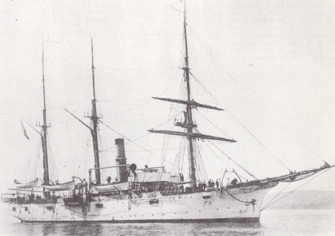 United States Navy sloop USS Ranger at Algiers